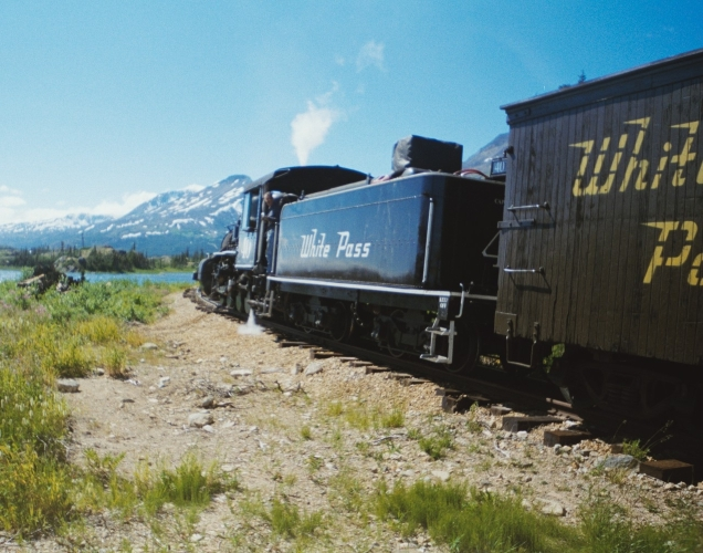 White Pass steam locomotive, shown between Bennett, British Columbia and Skagway, Alaska. Photo taken July, 2001. Original uploader is photographer Klanda. Image released under GNU FDL. 21:57, 19 Aug 2004 (UTC)